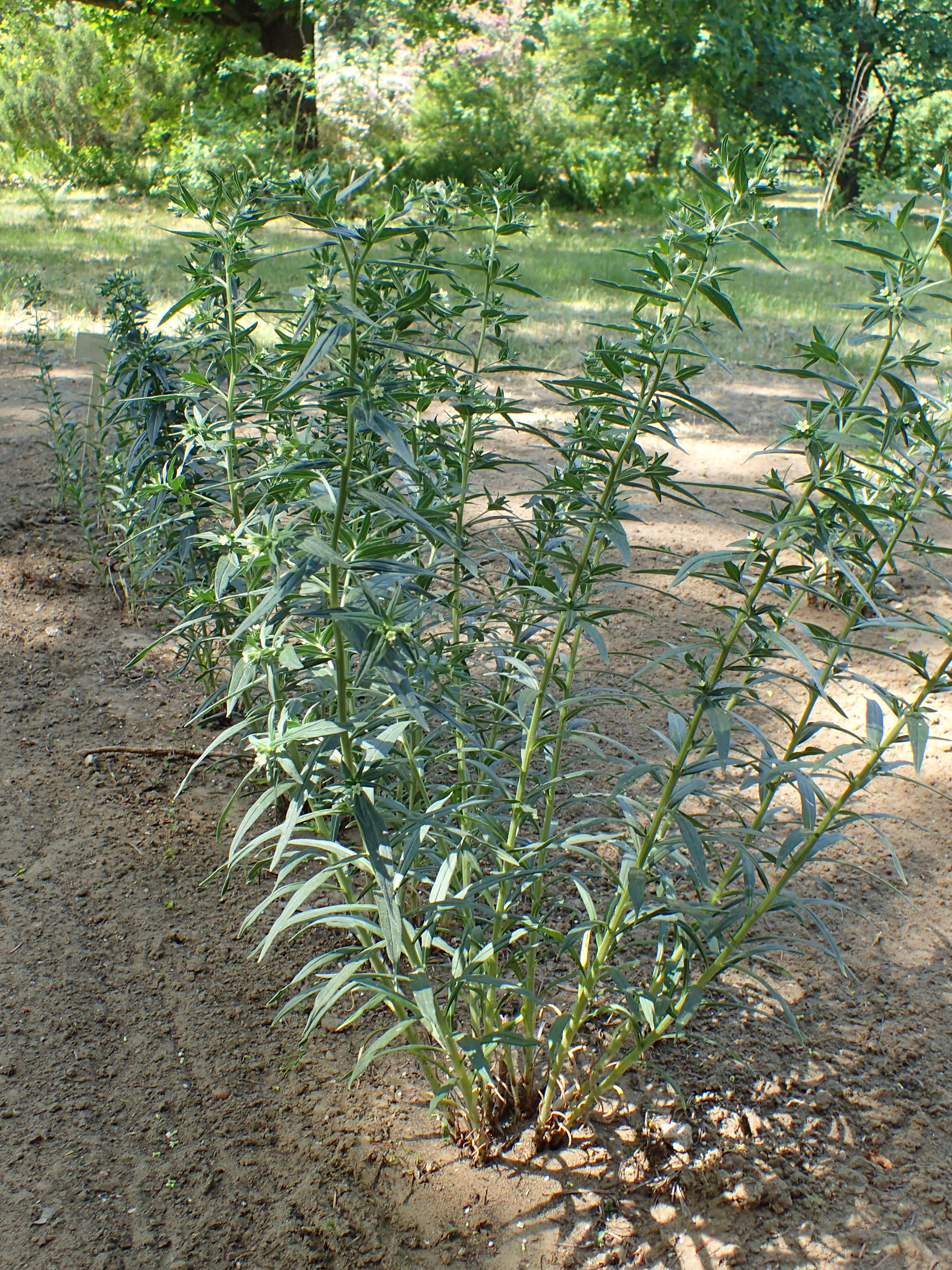 Lithospermum officinale in Botanical Garden of the University of Debrecen